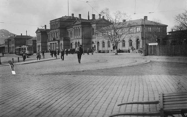 Trondheim Central Station in Trondheim, Norway